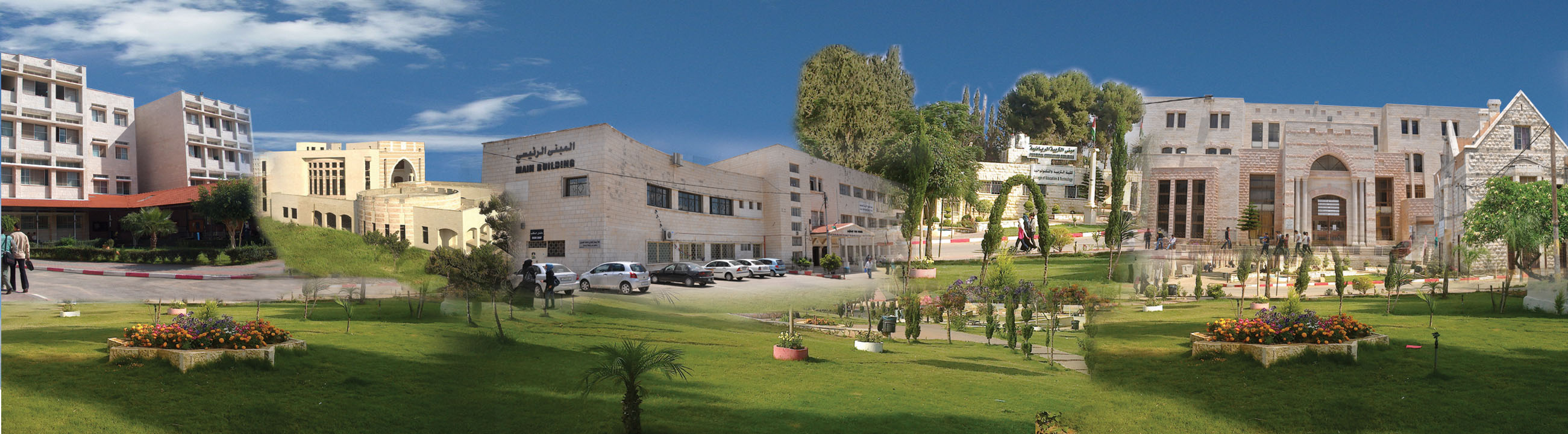 Panorama of PTUK